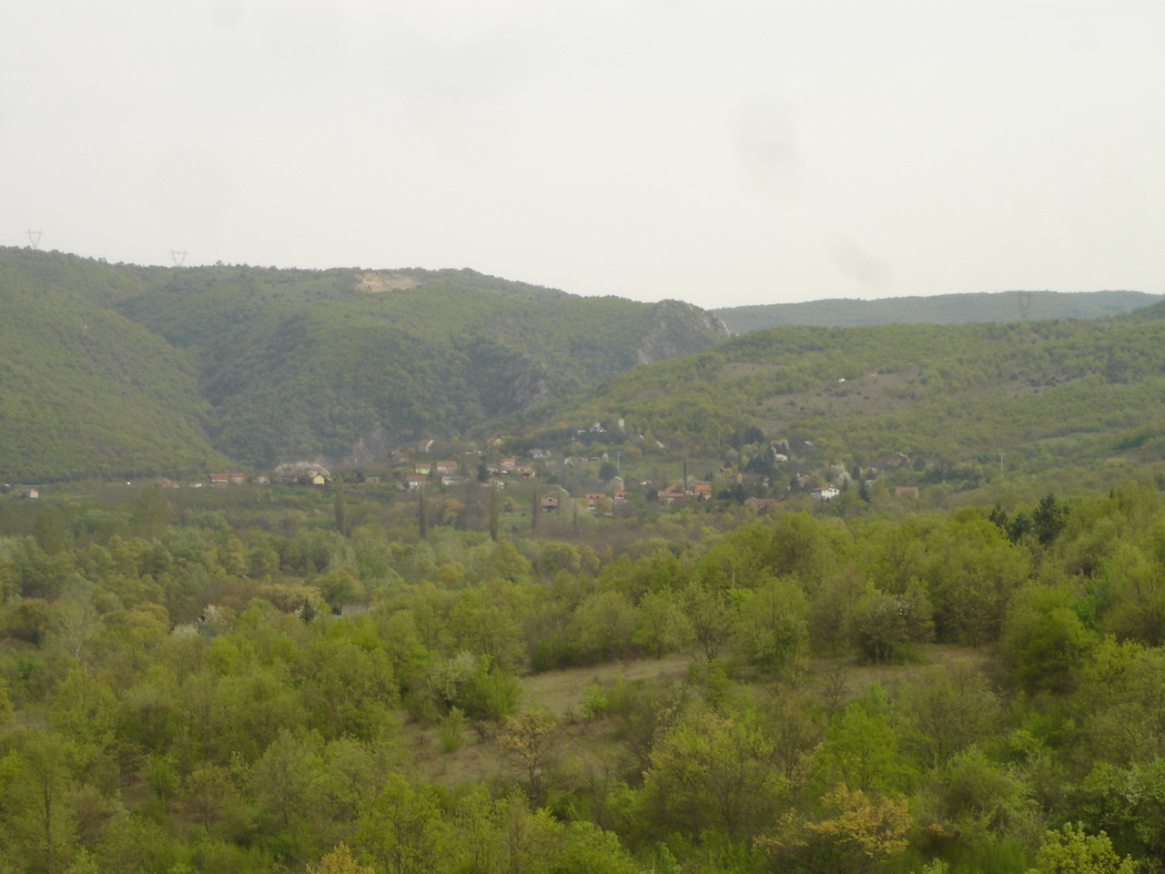 village of Badar, near Skopje, Macedonia